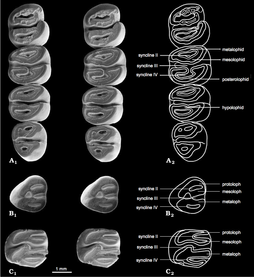 Figure 3 of Smith et al. (2006). Original caption: Fig. 3. Scanning micrographs of cheekteeth of Apeomyoides savagei gen. et sp. nov. in occlusal view, Eastgate local fauna, Monarch Mill Formation, early Barstovian, Churchill County, Nevada. A. The p4–m3 of the holotype, UCMP 109300, stereopair (A1) and explanatory drawing of the same (A2). B. Left DP4, UCMP 141774−08, stereopair (B1) and explanatory drawing of the same (B2). C. Left M1 or M2, UCMP 141774−01, stereopair (C1) and explanatory drawing of the same (C2).